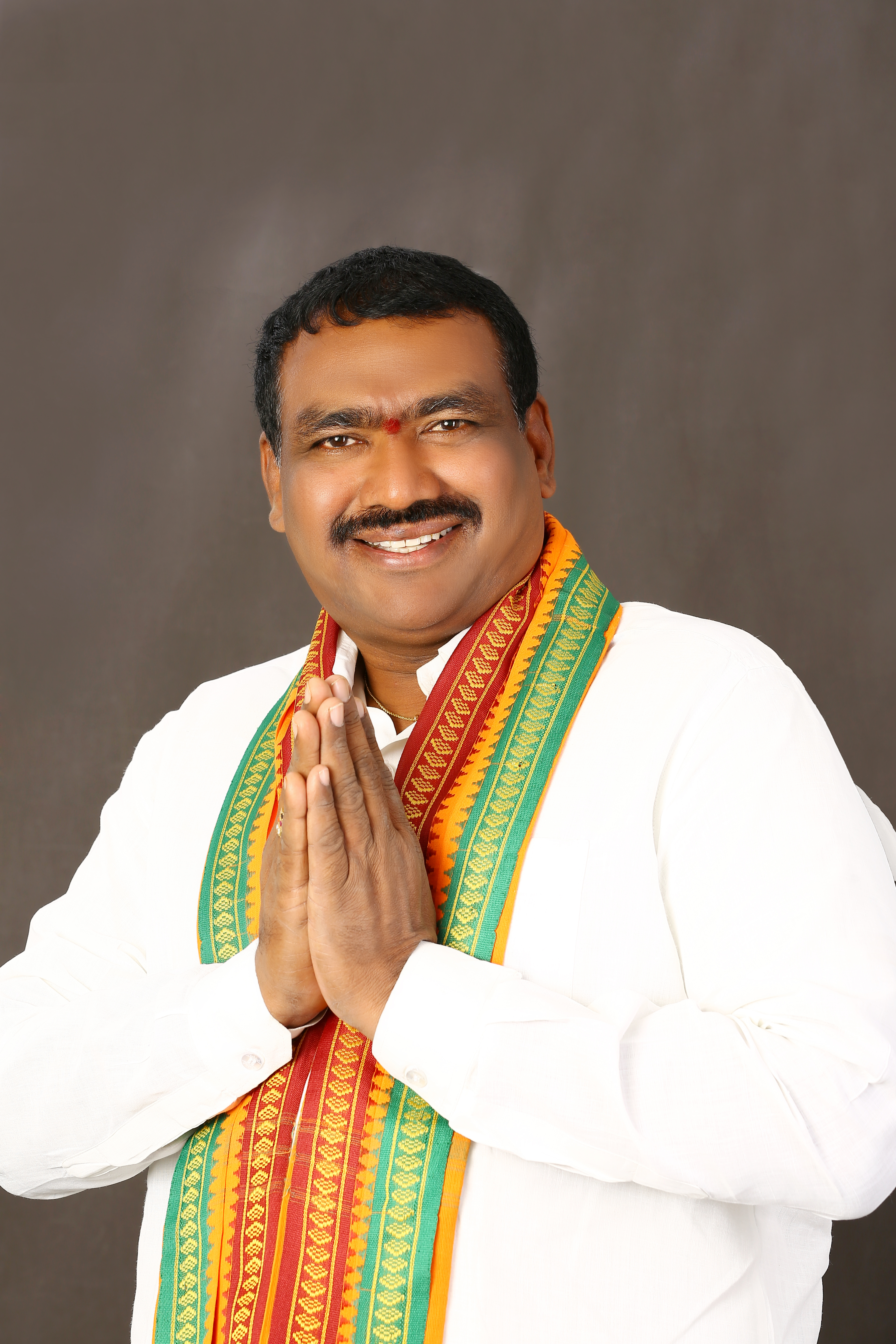 file photo